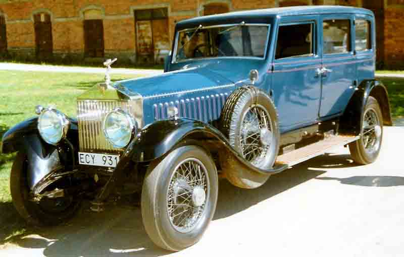 Rolls-Royce New Phantom Limousine 1926